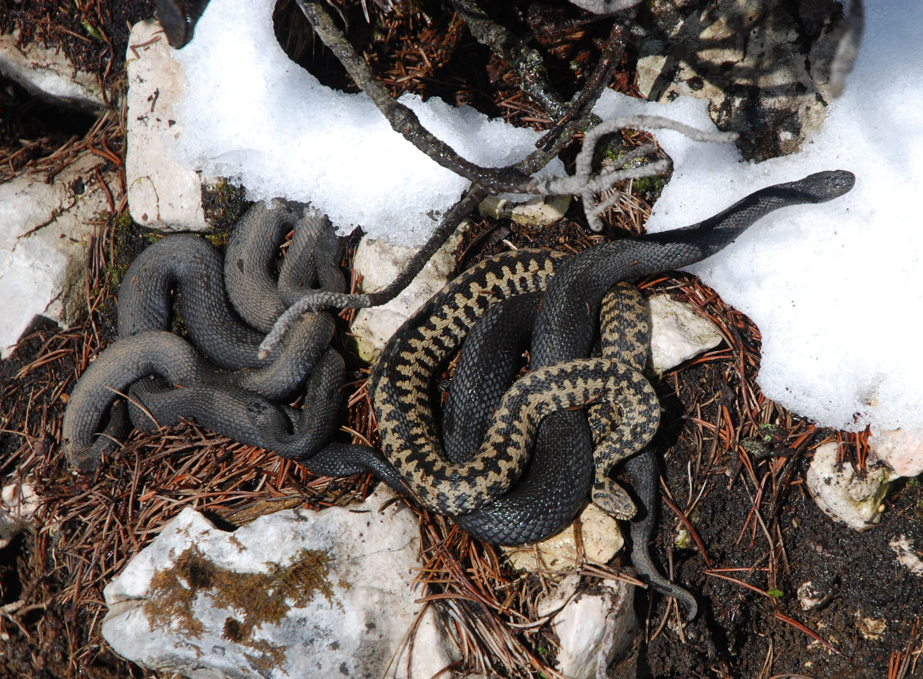 Viper berus, south of Heumahdgupf, Höllengebirge, Austria